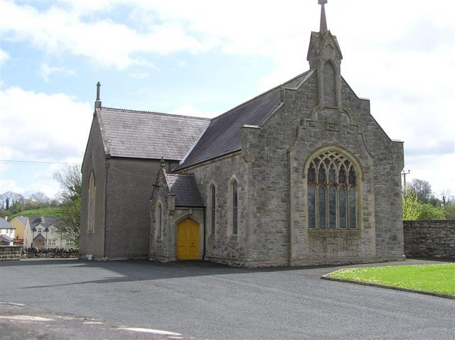 Aughnacloy Presbyterian Church. It is located at the south end of the town